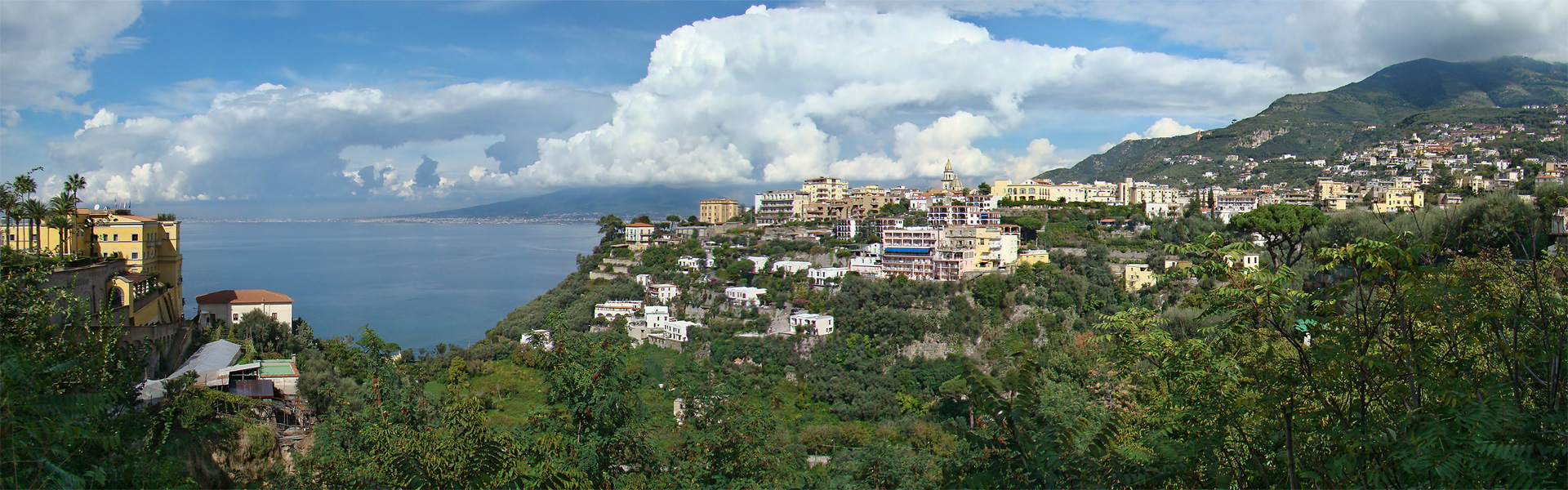 Vico Equense, Campania, Italy. In the background on the left, the Gulf of Naples.